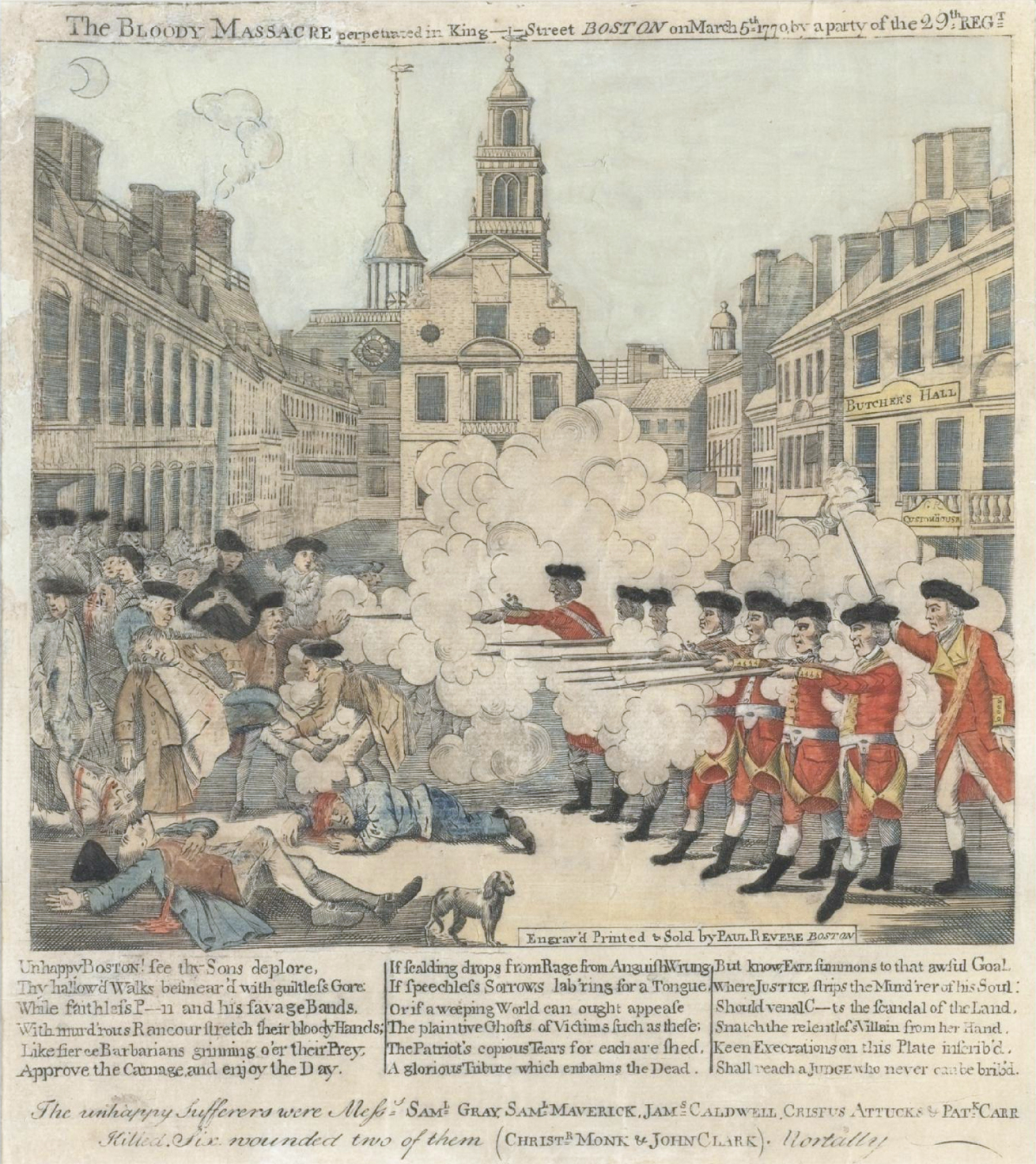 The bloody massacre sheet 285 by 242 mm Engraving with hand-coloring, 1770, the hands on the clock at upper left reading 10:20 (Brigham cites a variant with the time being 8:00), on laid paper with the watermark "W", with margins